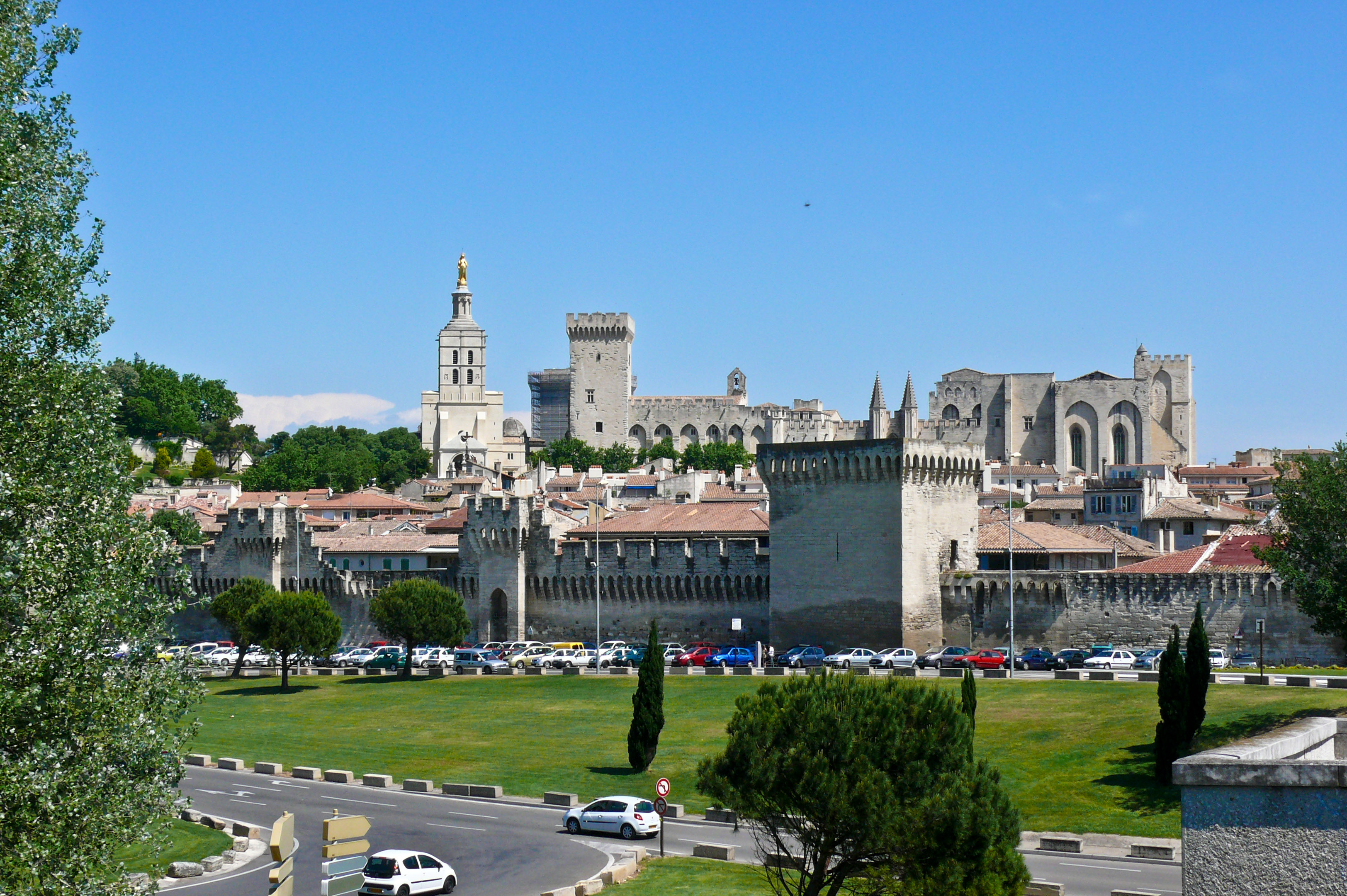 Center with papal palace in Avignon